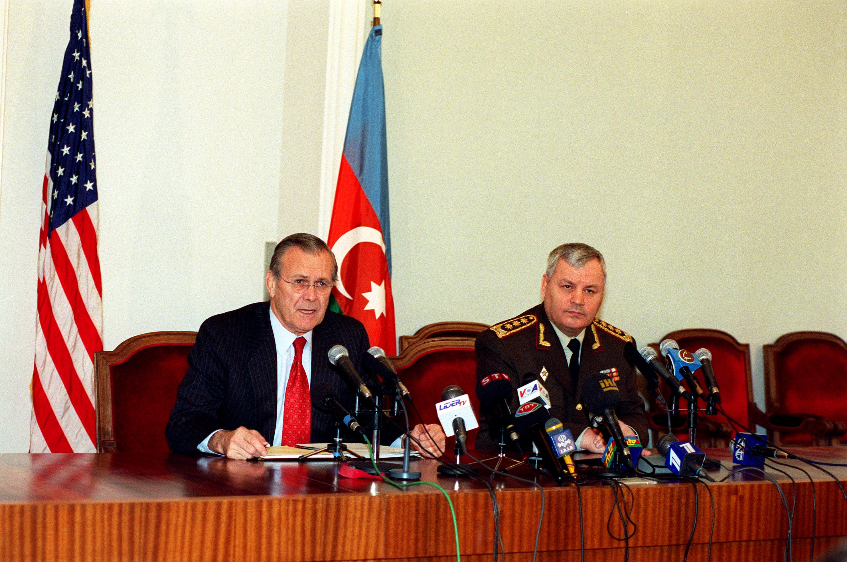 Secretary of Defense Donald H. Rumsfeld responds to a reporter's question during a joint press briefing with Minister of Defense Colonel General Safar Abiyev at the Presidential Palace in Baku, Azerbaijan. Rumsfeld is meeting with leaders of the Caucasus region to establish military-to-military links with those countries.